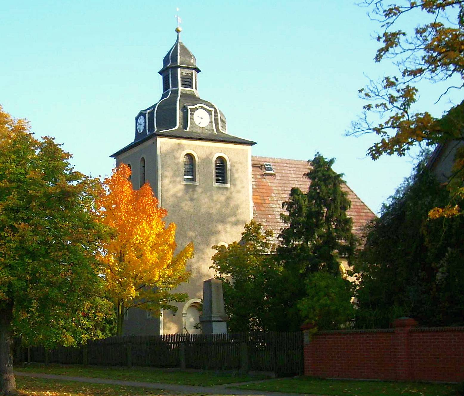 Church of the village of Rehfeld (Falkenberg/Elster, Elbe-Elster district, Brandenburg)